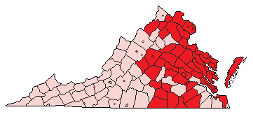 A map of the county results of the 2008 Virginia Republican presidential primary.